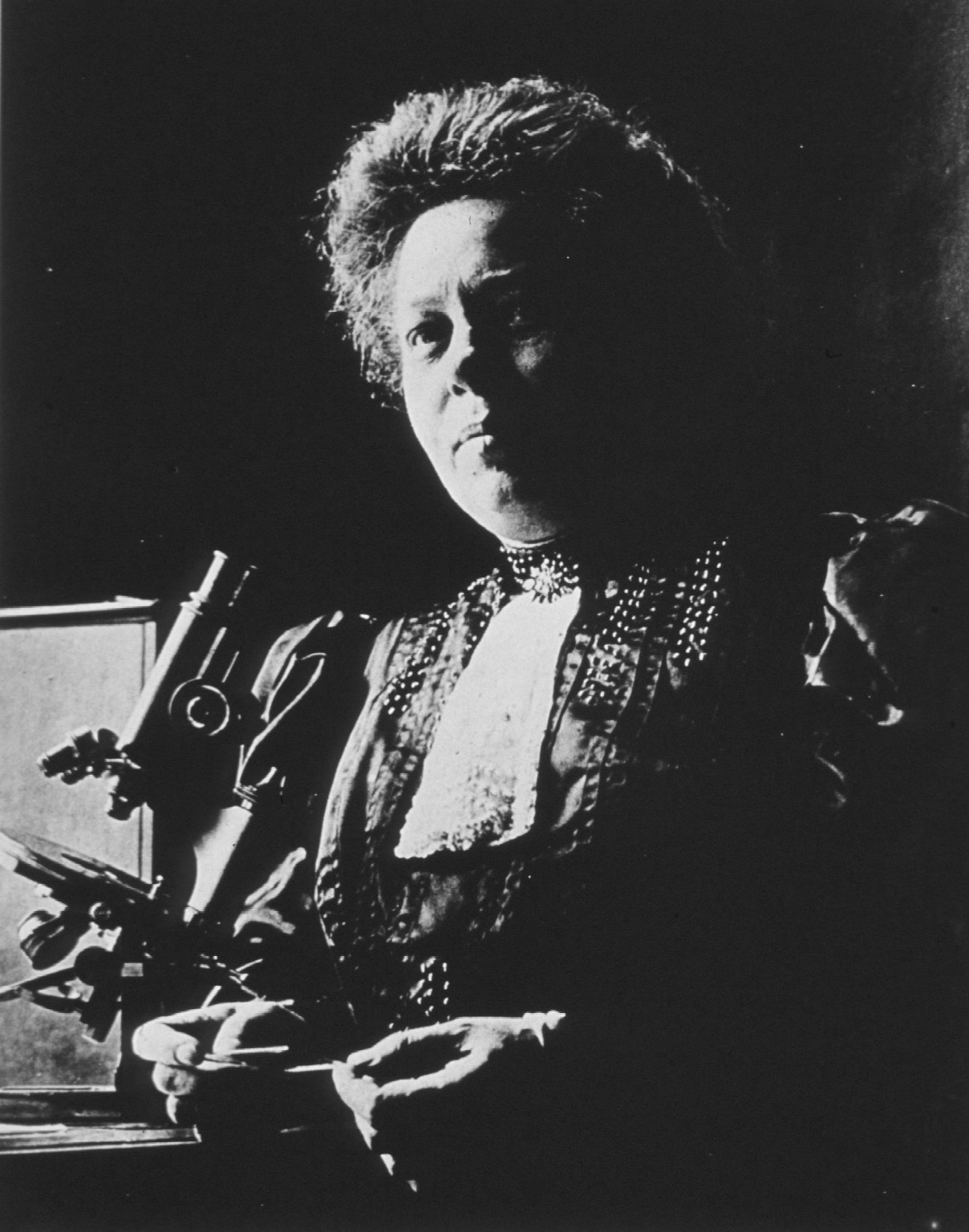 Augusta Déjerine-Klumpke